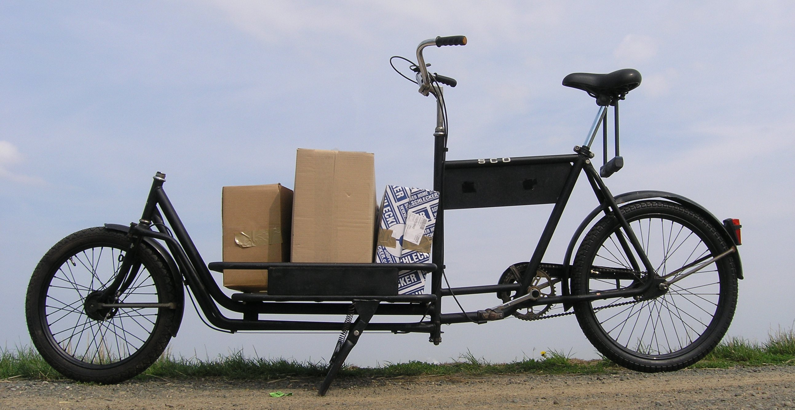 Heavy duty freight bicycle made by SCO, Denmark. Can carry more than 100 kg.